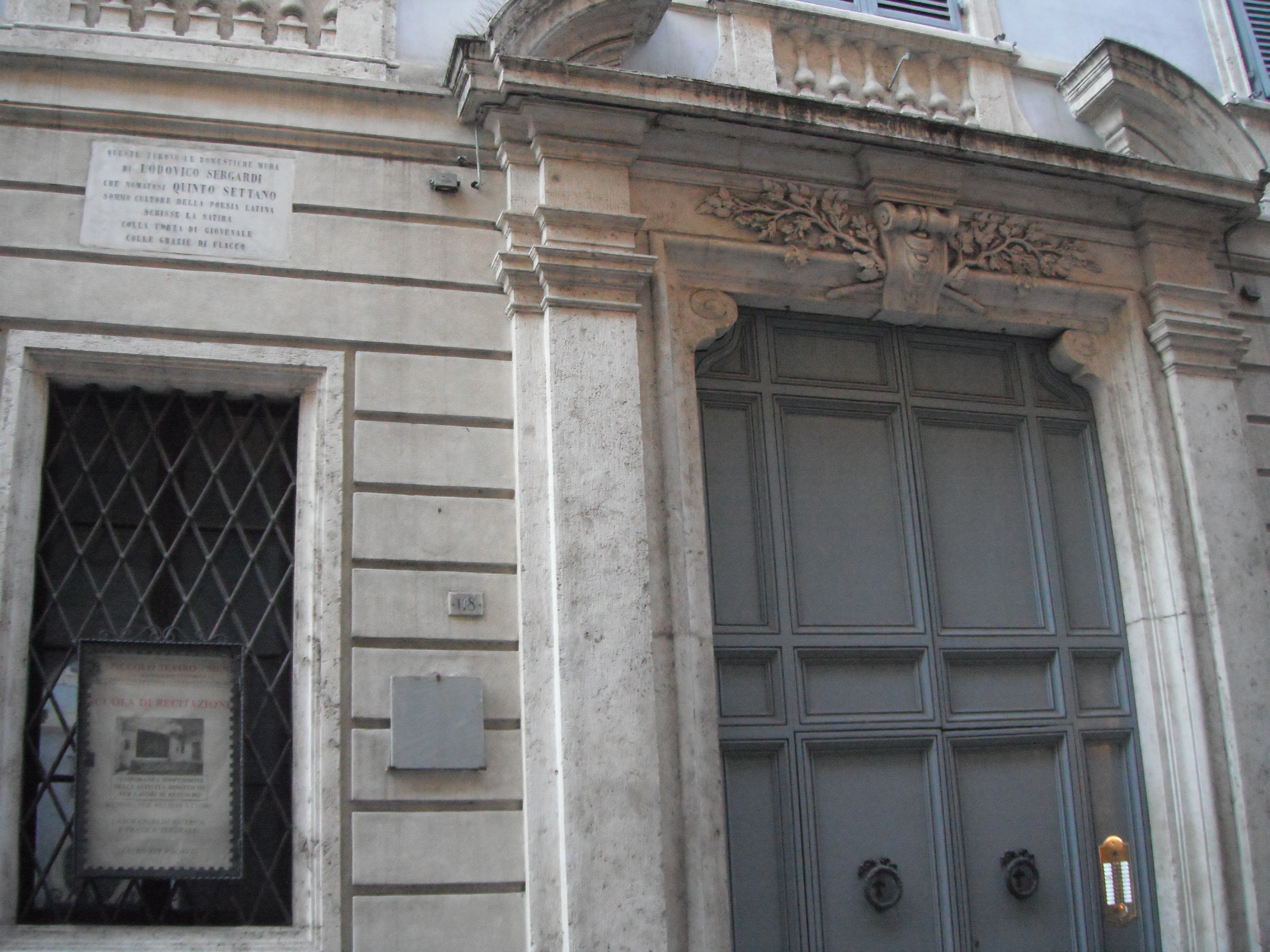 Plaque remembering Lodovico Sergardi, also known as Quinto Settano, on a palace in Siena, via Montanini. The plaque says: «These were the home walls of Lodovico Sergardi who, called himself Quinto Settano, major expert of Latin poetry, wrote satire with the strength of Juvenal with the grace of Horace».